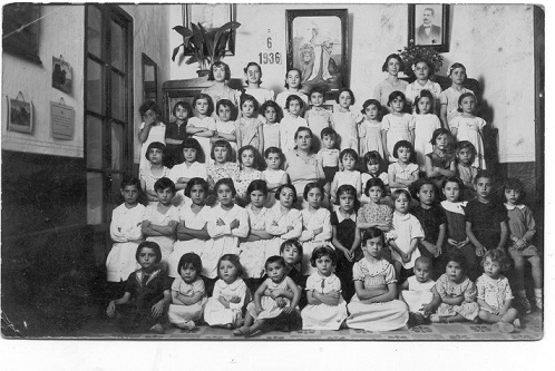 School of the anarchist teacher José Sánchez Rosa, in Sevilla, 1936